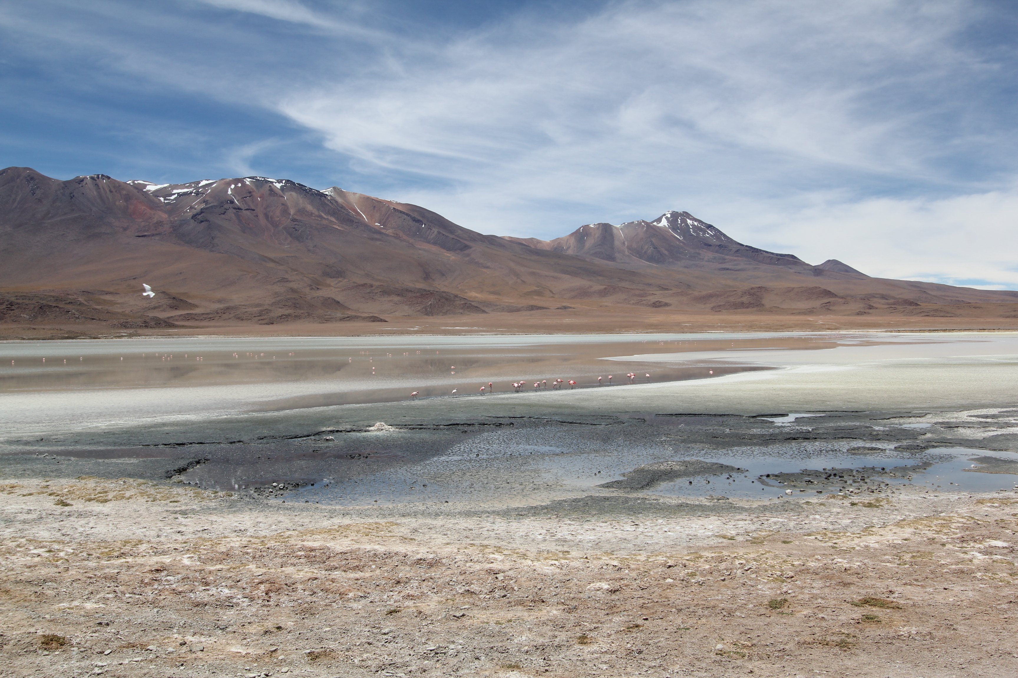 Laguna Hedionda with Cerros de Cañapa in the background, Bolivia.